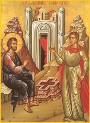 Photina, Samaritan woman, meets Jesus (Orthodox icon).